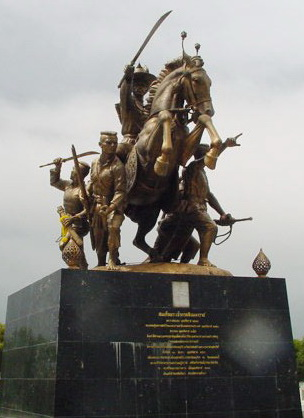 Statue of King Taksin at Thung Na Choei Public Park, Chantaburi.